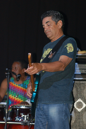 Kenny Gradney, bassist for the band Little Feat, since 1972. Photo: 2009